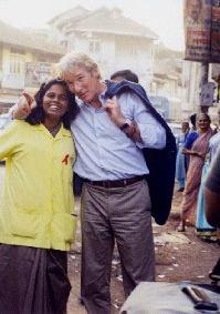 This is a photo of Richard Gere taken from a United States Government website . Here is the original image URL